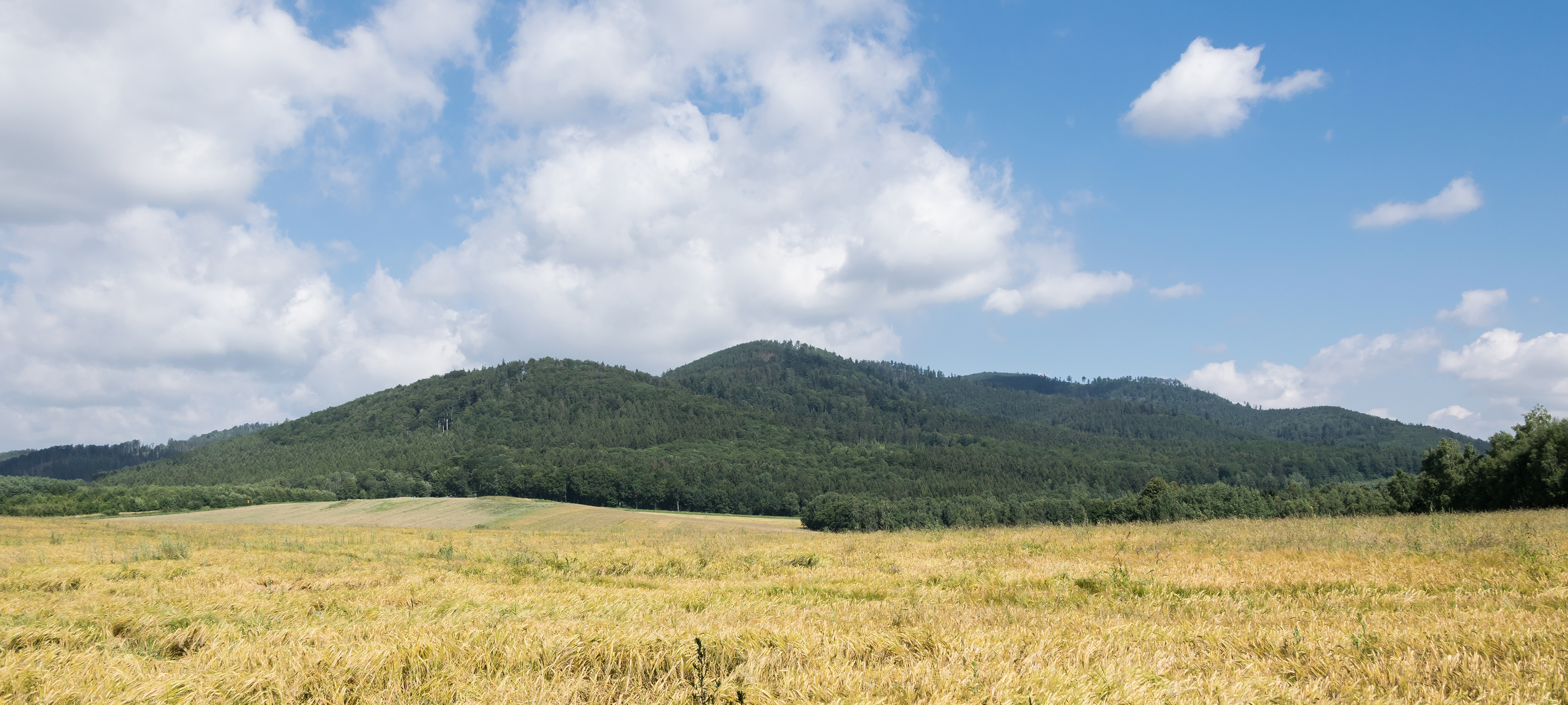 Bardzkie Mountains, Sudetes, southern-eastern part of Grzbiet Wschodni, view from south-west To jest fotografia obszaru chronionego dostępnego w CRFOP pod numerem PLH020062